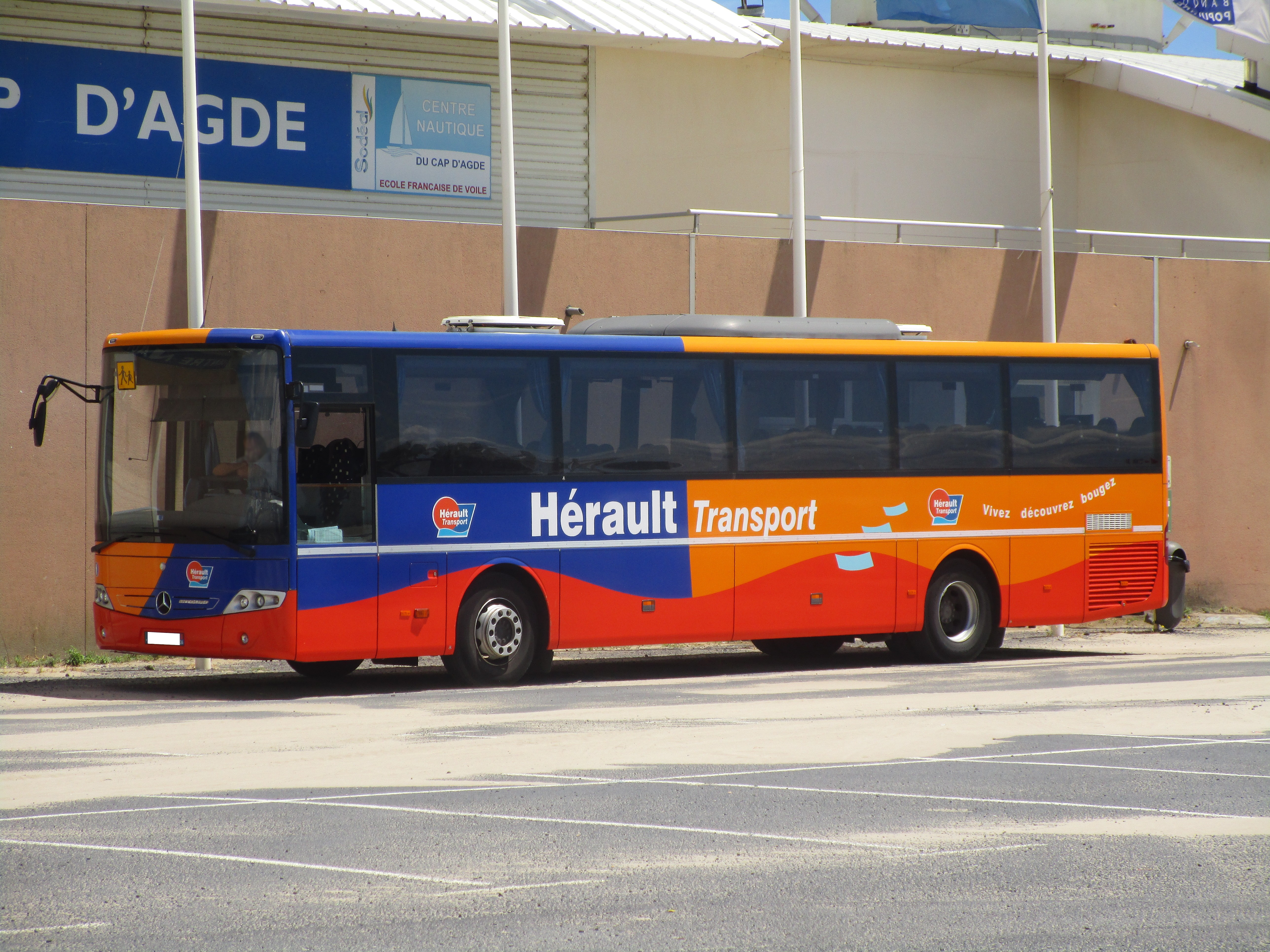 A Mercedes-Benz Intouro of GRV Autocars (with the livery of the departmental bus network Hérault Transport) — in the Cap d’Agde, France — on June 30, 2017.